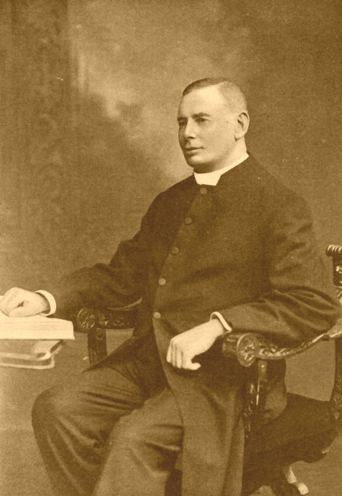 Fr O'Connell, photograph of St. George's Carlton, Parish Priest